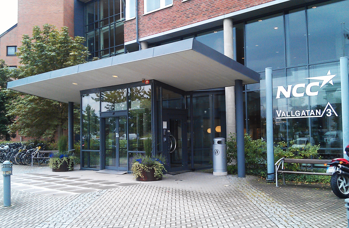 Entrance to the NCC's headquarters at Vallgatan 3 in Solna.